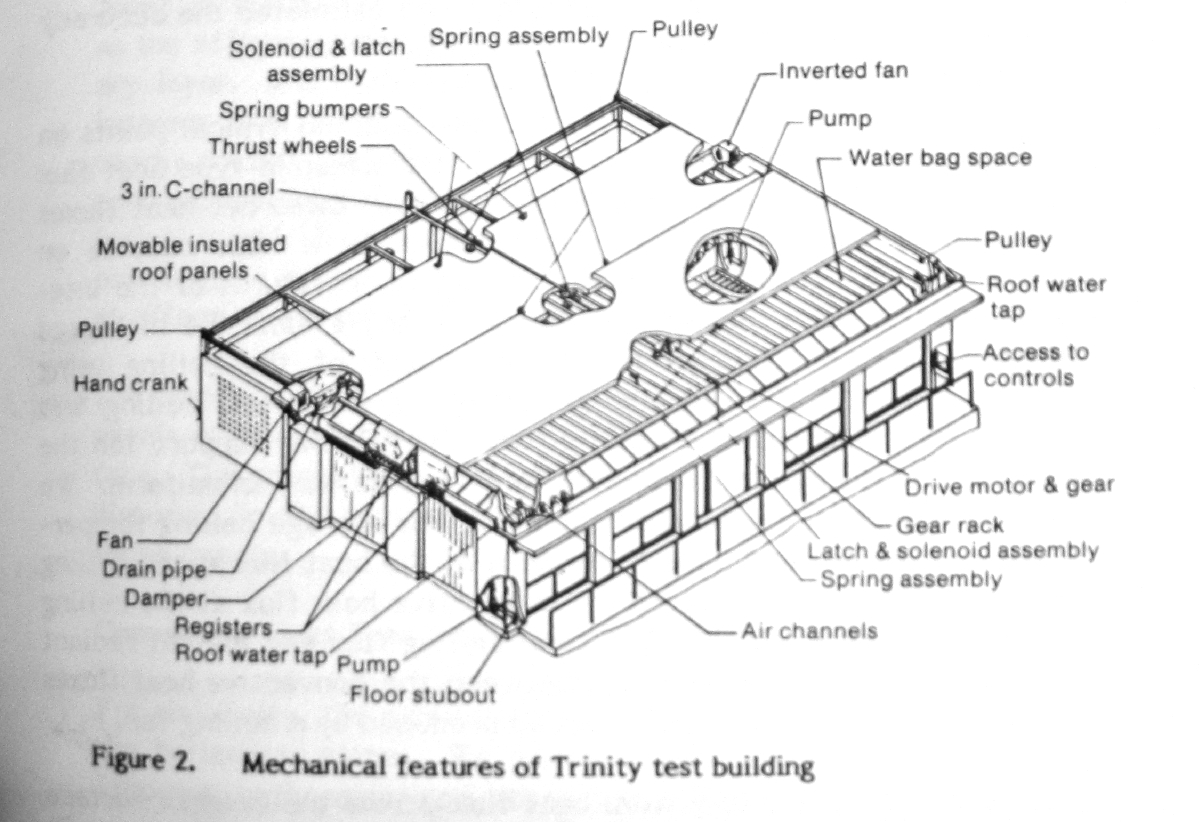 This is a sketch of the roofpond experimental apparatus at Trinity University Texas, using the "Skytherm System," an illustration which accompanied an article in the Vol. 4 No. 3 of the Passive Solar Journal.